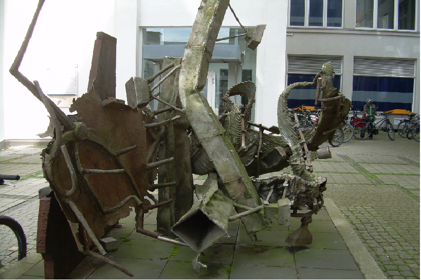 Peekskill by Frank Stella